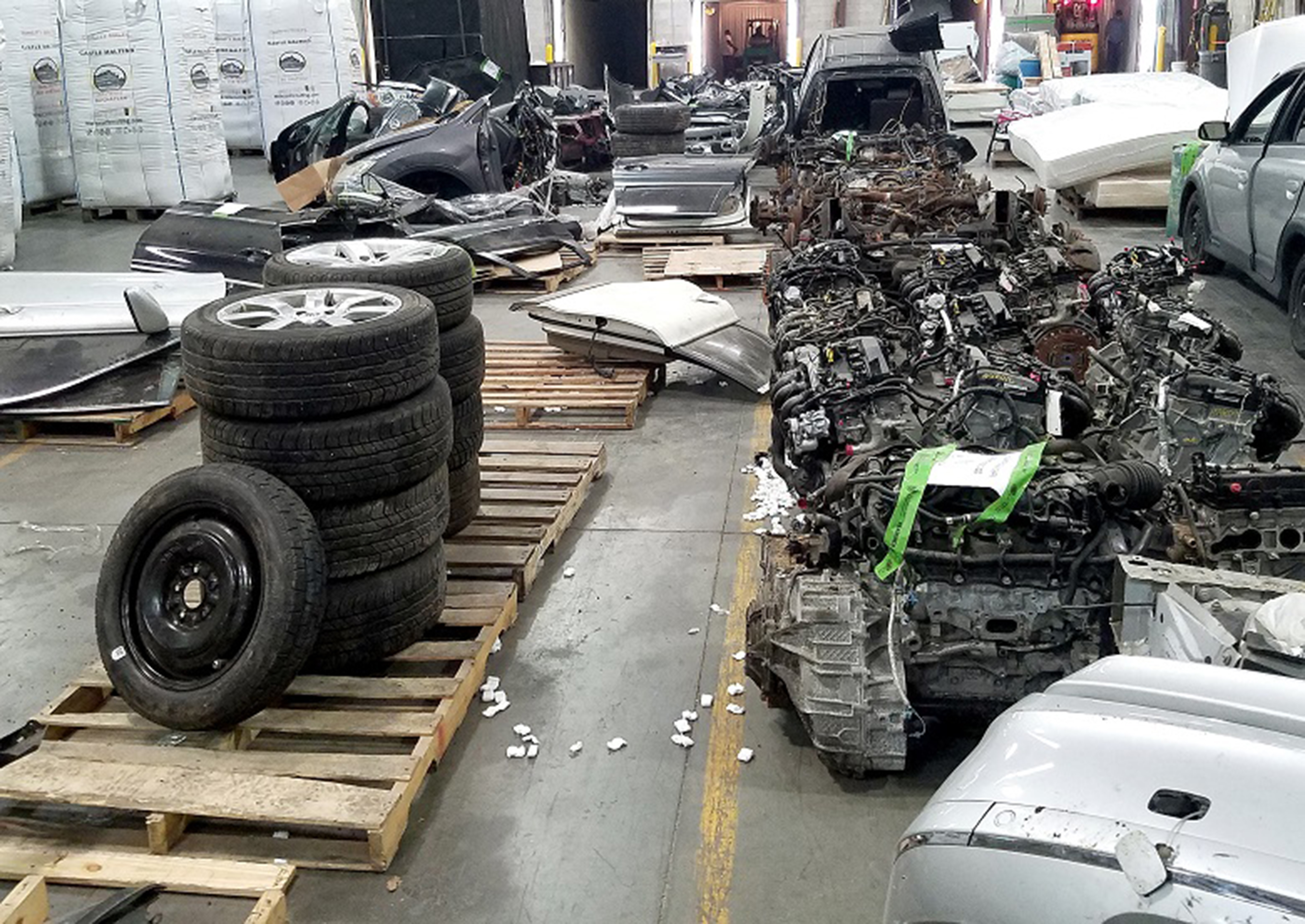 NORFOLK VA— U.S. Customs and Border Protection (CBP) Office of Field Operations officers working at the Port of Norfolk, Va., seized stolen vehicles and automobile parts on September 13, that were destined to Jordan. The auto parts were valued at approximately $85,000. Photo provided by U.S. Customs and Border Protection